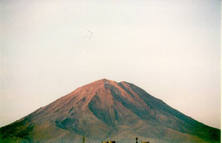 Volcano "El Misti" seen from downtown Arequipa in the evening sun